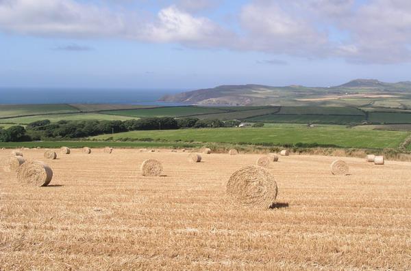 Pembrokeshire Fields. Fields & Coast looking from Mathry to Abercastle Road